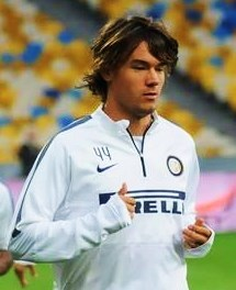 Rene Krhin